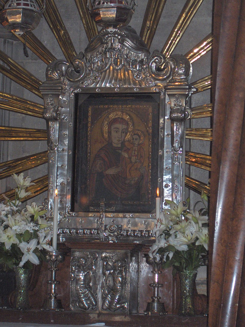 The Pötscher Madonna in the Stephansdom in Vienna, Austria